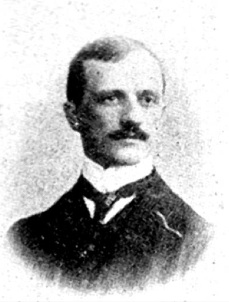 Nicolae Drăganu, Romanian philologist